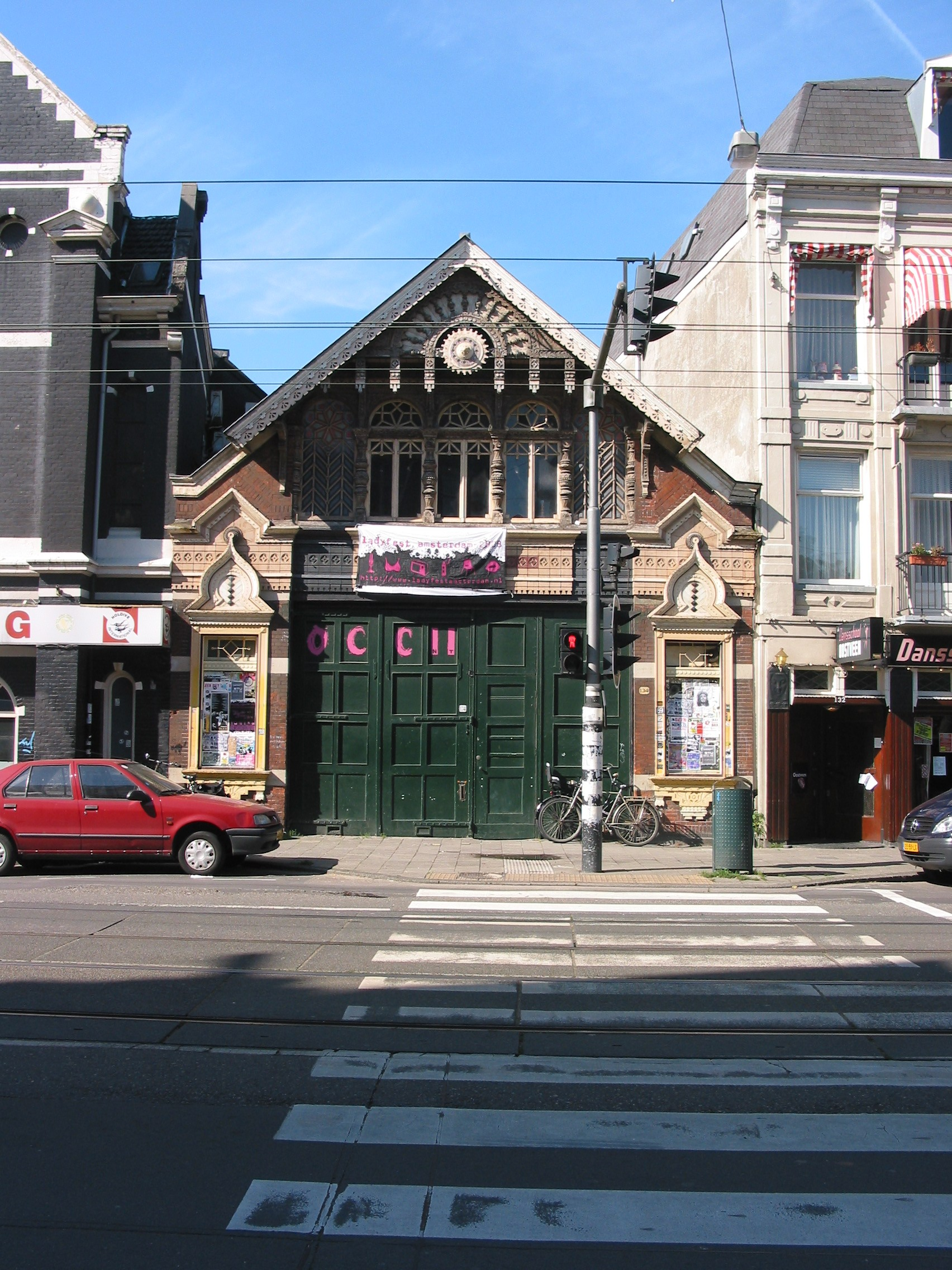 Punk/dance venue and Children's theatre Occi, Amstelveenseweg 134, Amsterdam.